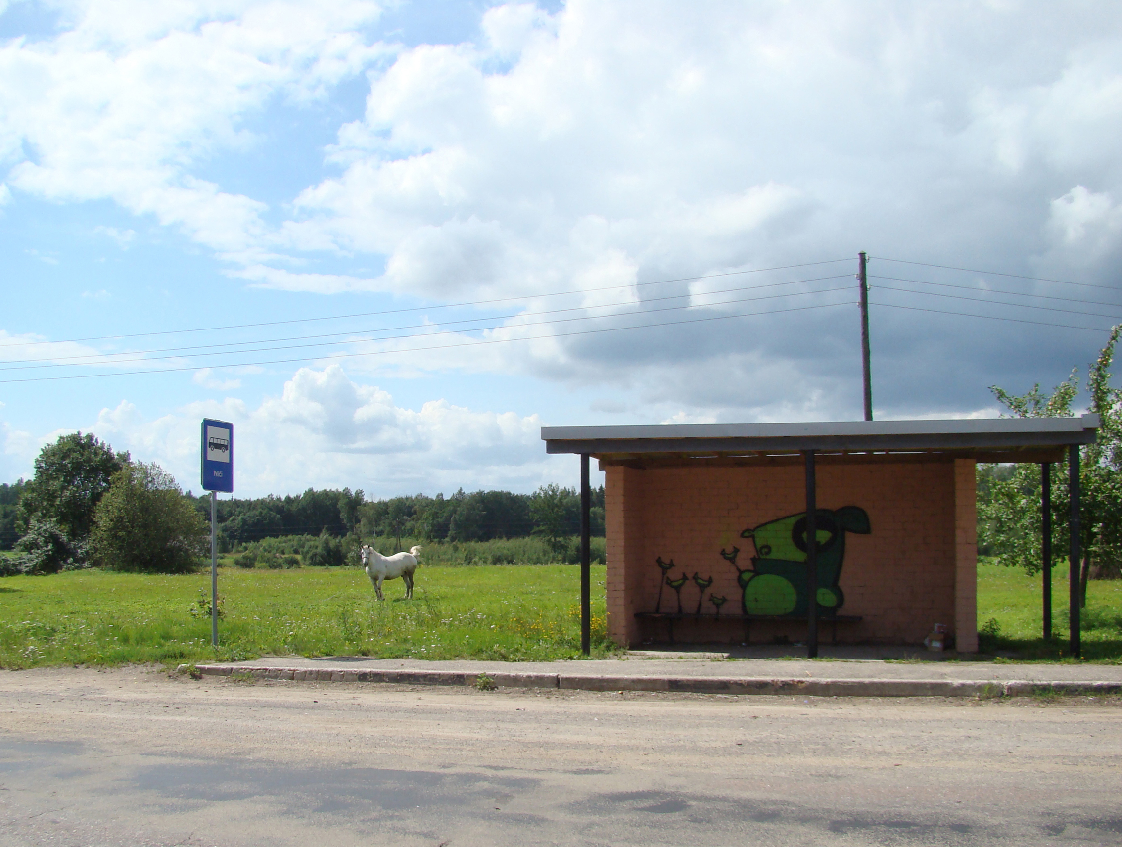 Bus stop in UpmalasLatviešu: Autobusa pietura "Niči" Upmalās